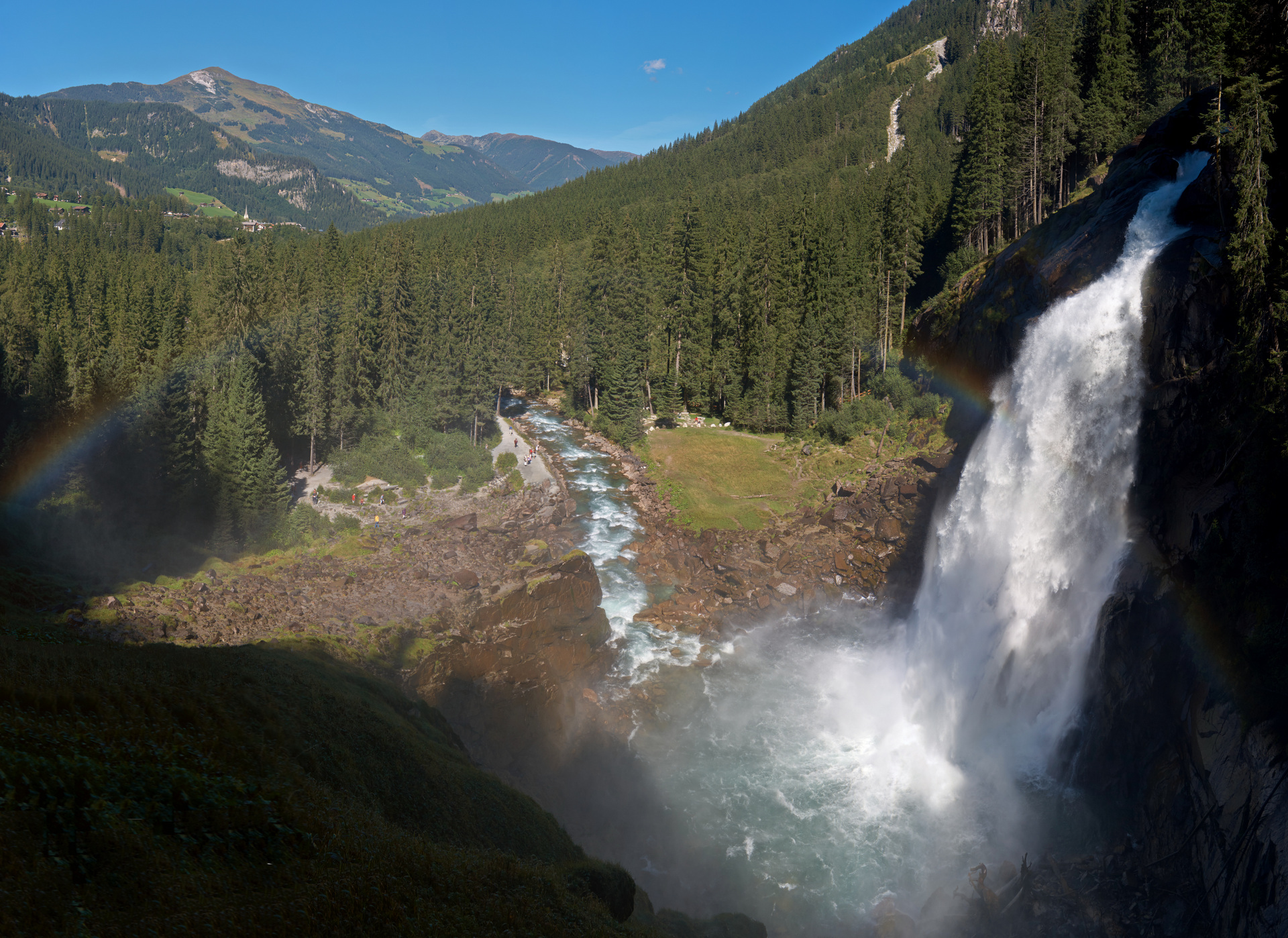 Lower Krimmler Waterfall in summer